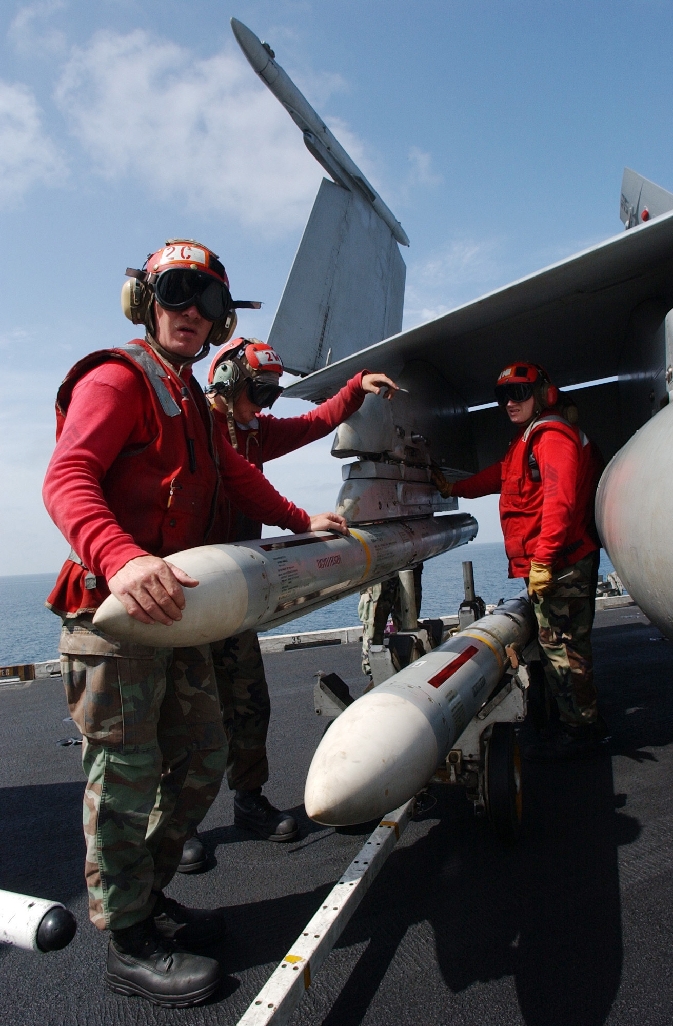 AIM-7 Sparrow, 020303-N-4768W-015 At sea aboard USS John C. Stennis (CVN 74), Mar. 3, 2002 -- U.S. Marine ordnance handlers load an AIM-7 “Sparrow” missiles onto an F/A-18 "Hornet" strike fighter assigned to the "Black Knights" of Marine Fighter Attack Squadron Three One Four (VMFA-314). John C. Stennis and Carrier Air Wing Nine (CVW-9) are conducting combat missions over Afghanistan in support of Operation Enduring Freedom.